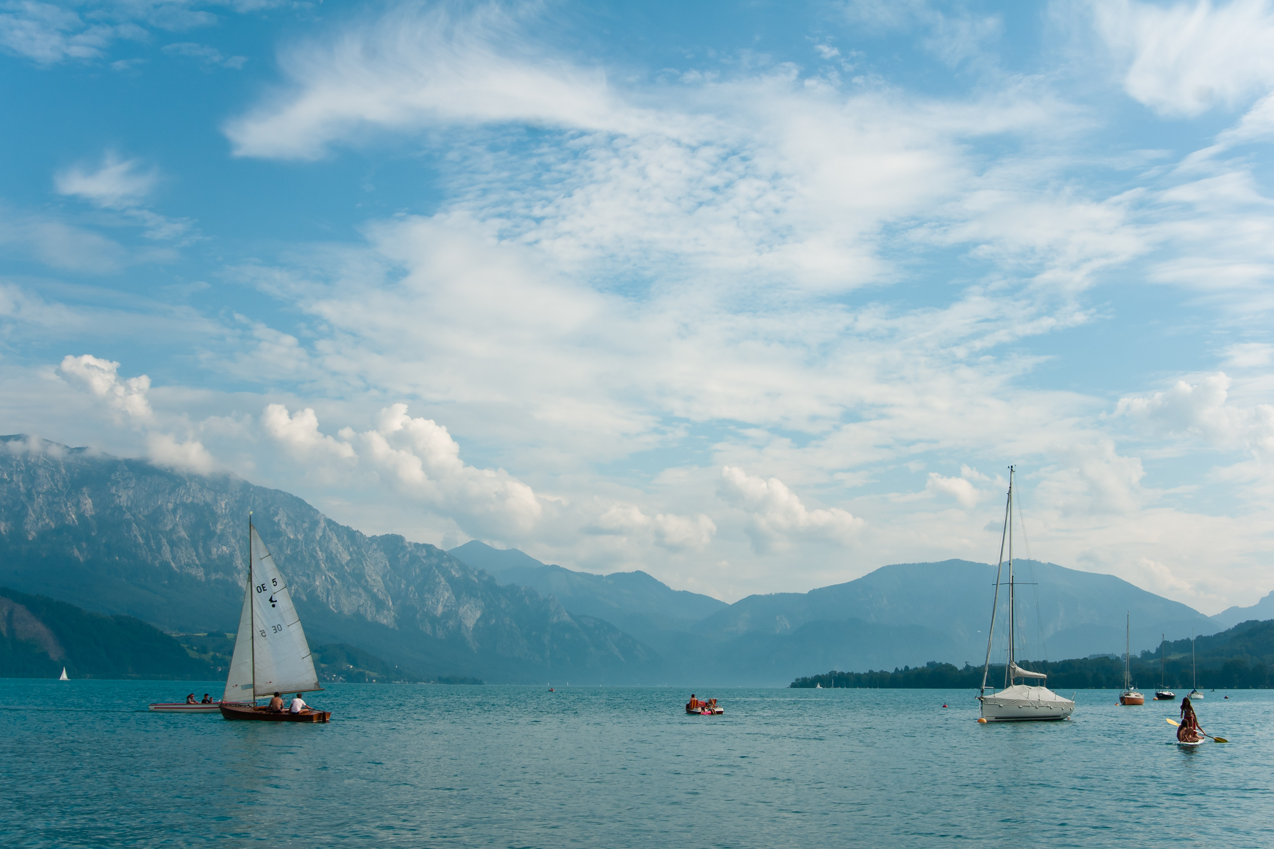 From my recent family trip to the Attersee in Austria. Just lovely!